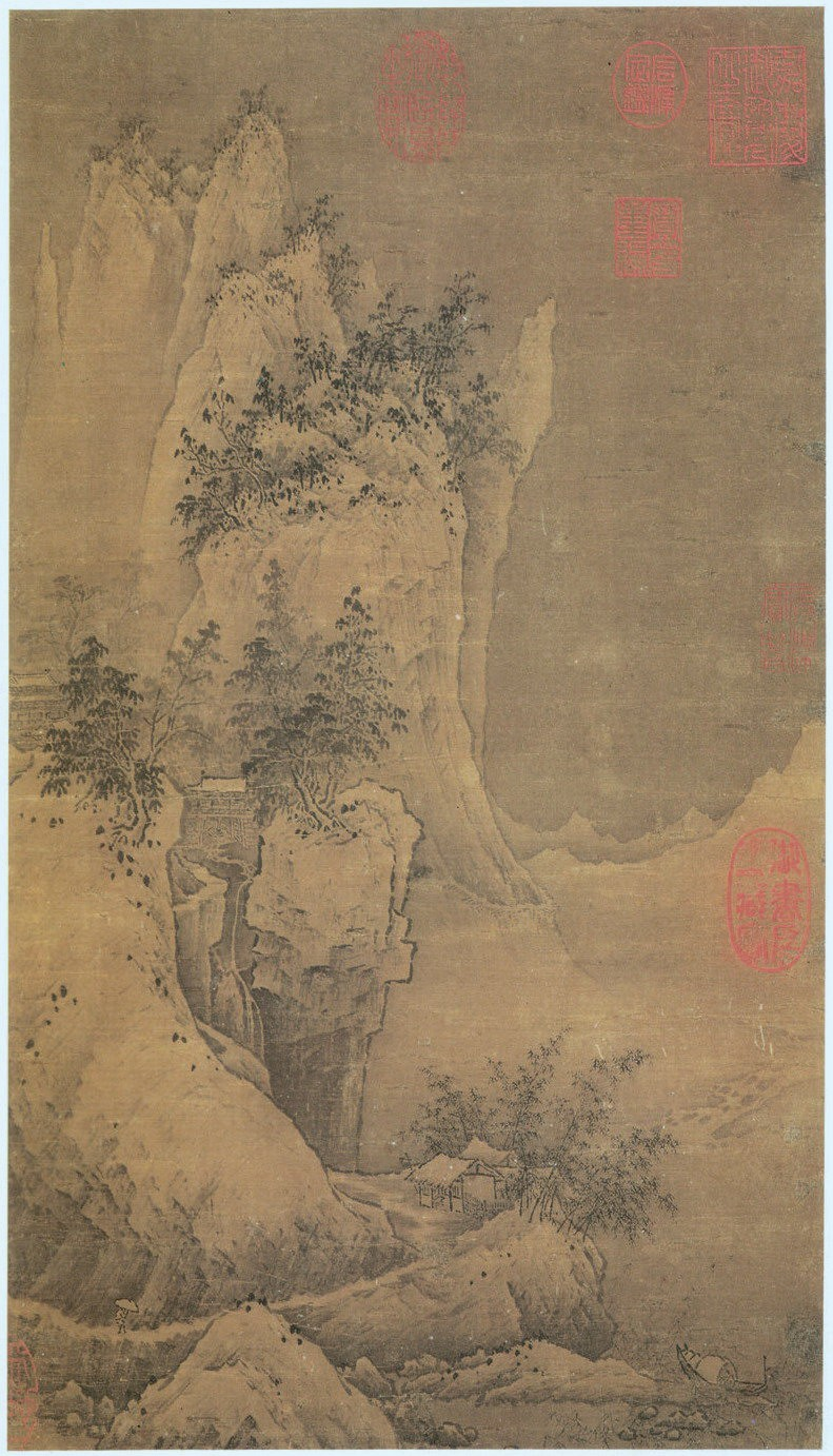 Gao Keming. Snow on the Mountain Streams. Album leaf. NPM, Taipei